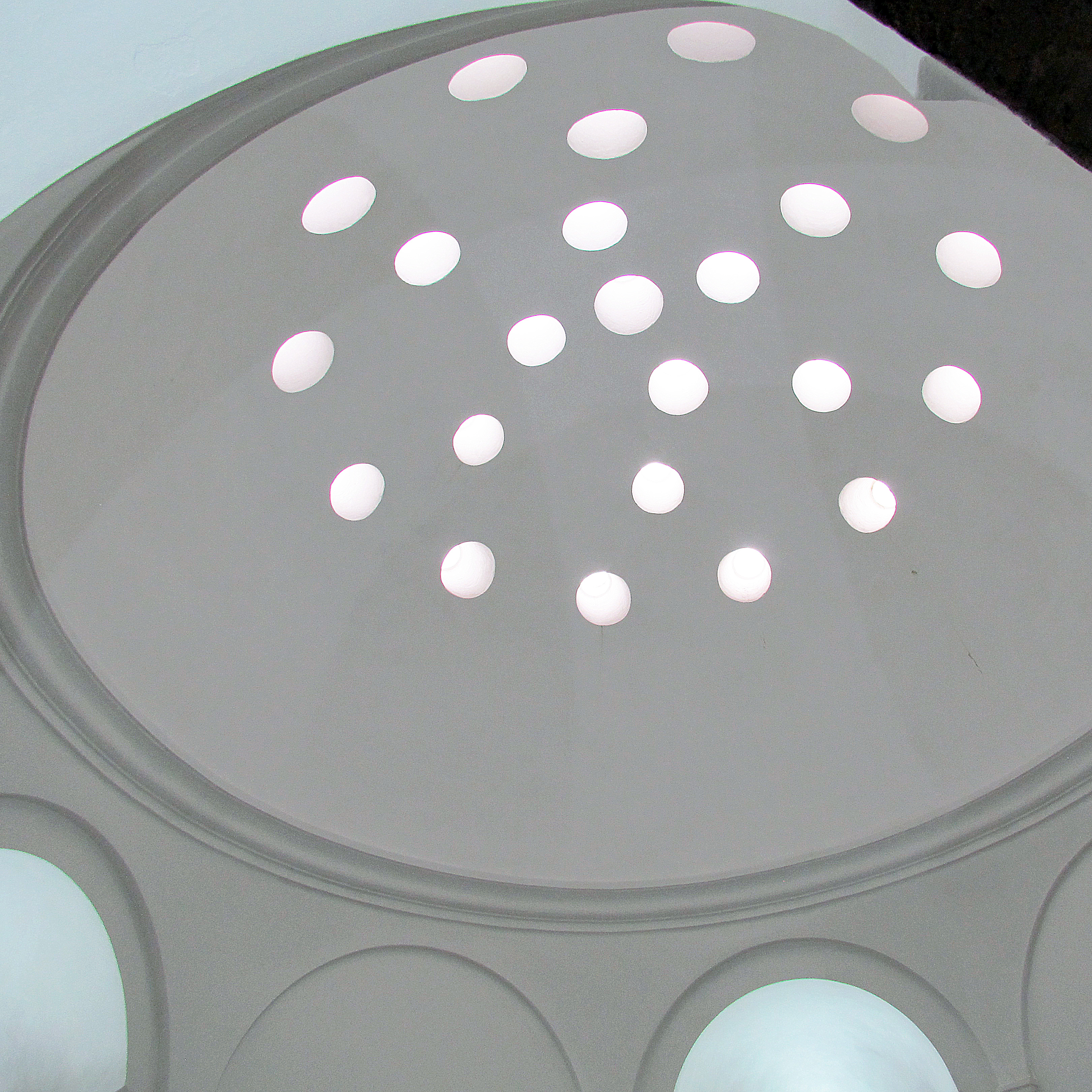 Ceiling windows in Turkish bath at princess Ljubica Obrenovic konak, Belgrade.